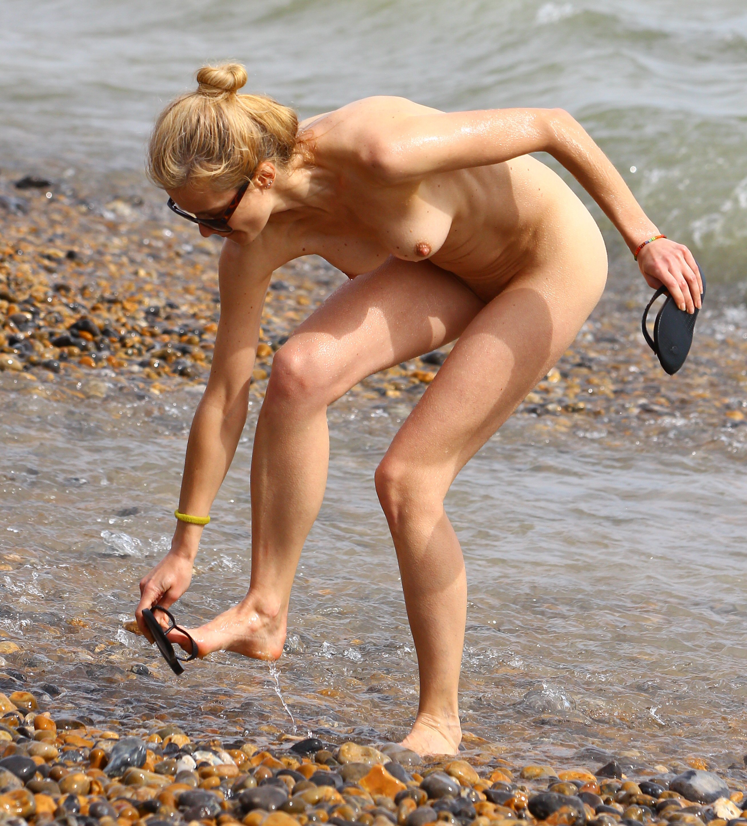 If I could offer you only one piece of advice on a pebble beach, this would be it ;)